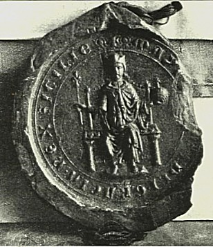 Siegel Manfred of Sicily